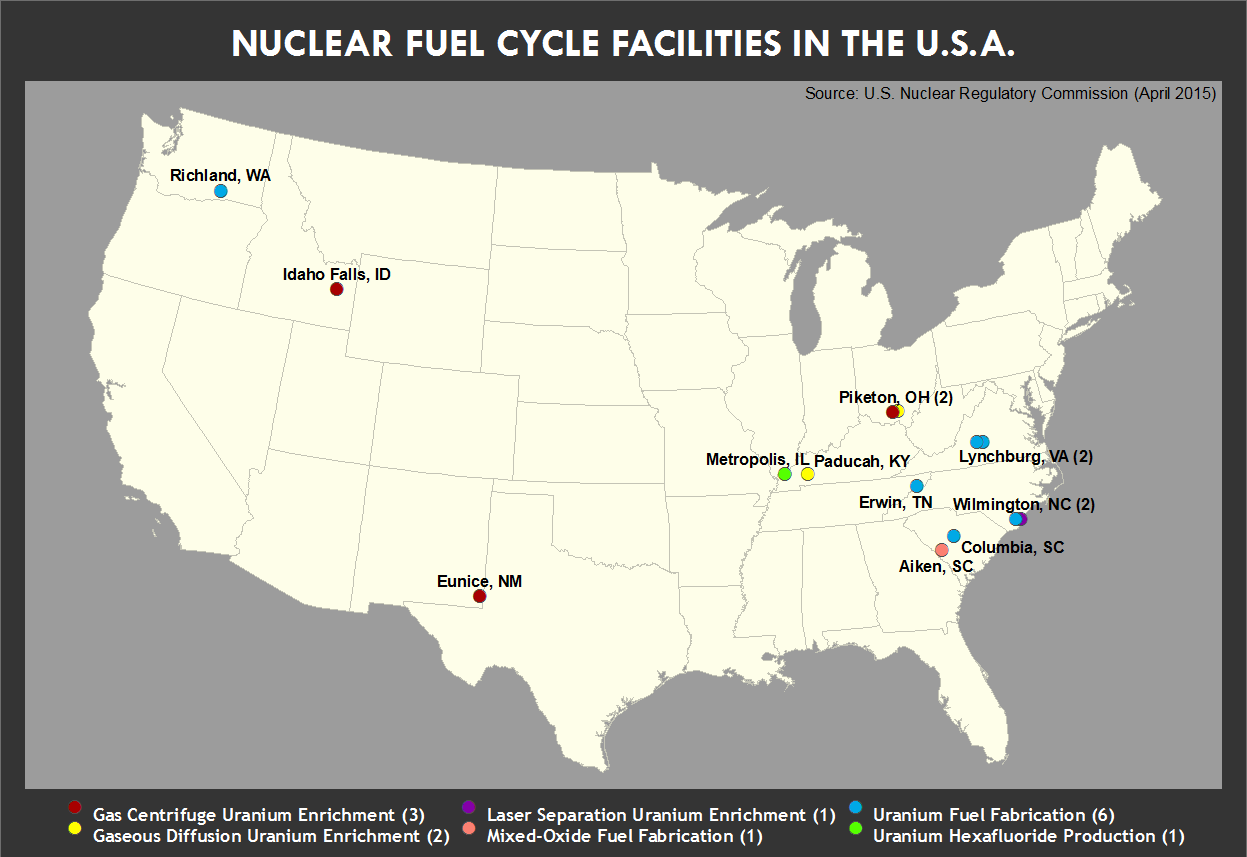 Projection: USA Contiguous Albers Equal Area Conic Data (last updated April 2, 2015)